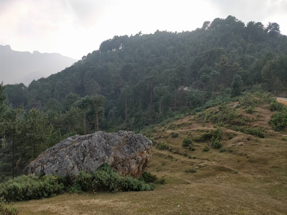 Bagh Dhunga (Tiger Stone or Large Rock)